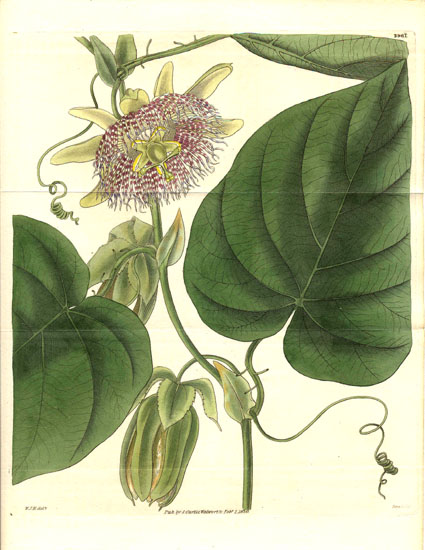 Passiflora ligularis